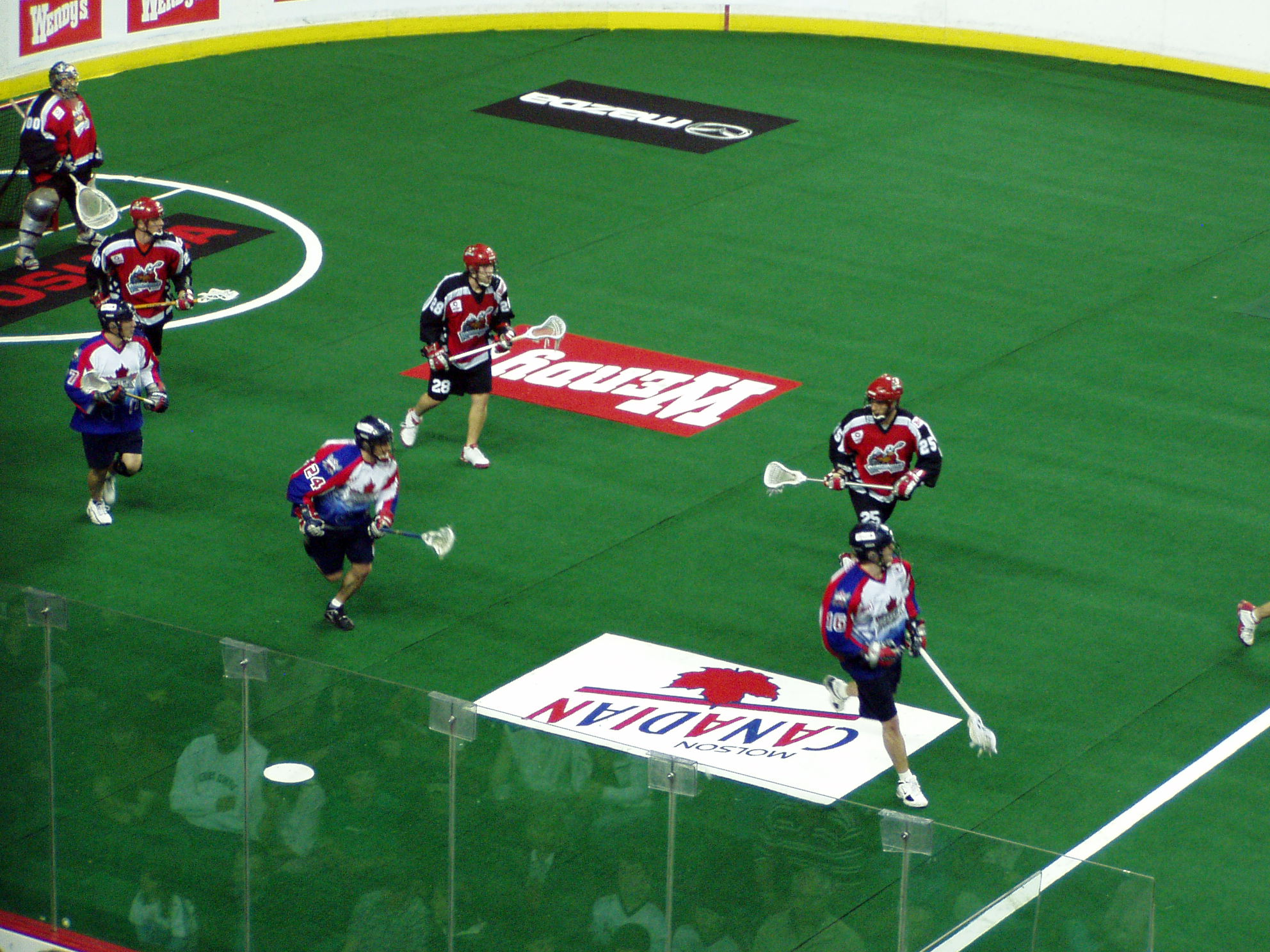 Calgary Roughnecks and Toronto Rock at the Pengrowth Saddledome, April 17, 2005. This is a National Lacrosse League (NLL) match.